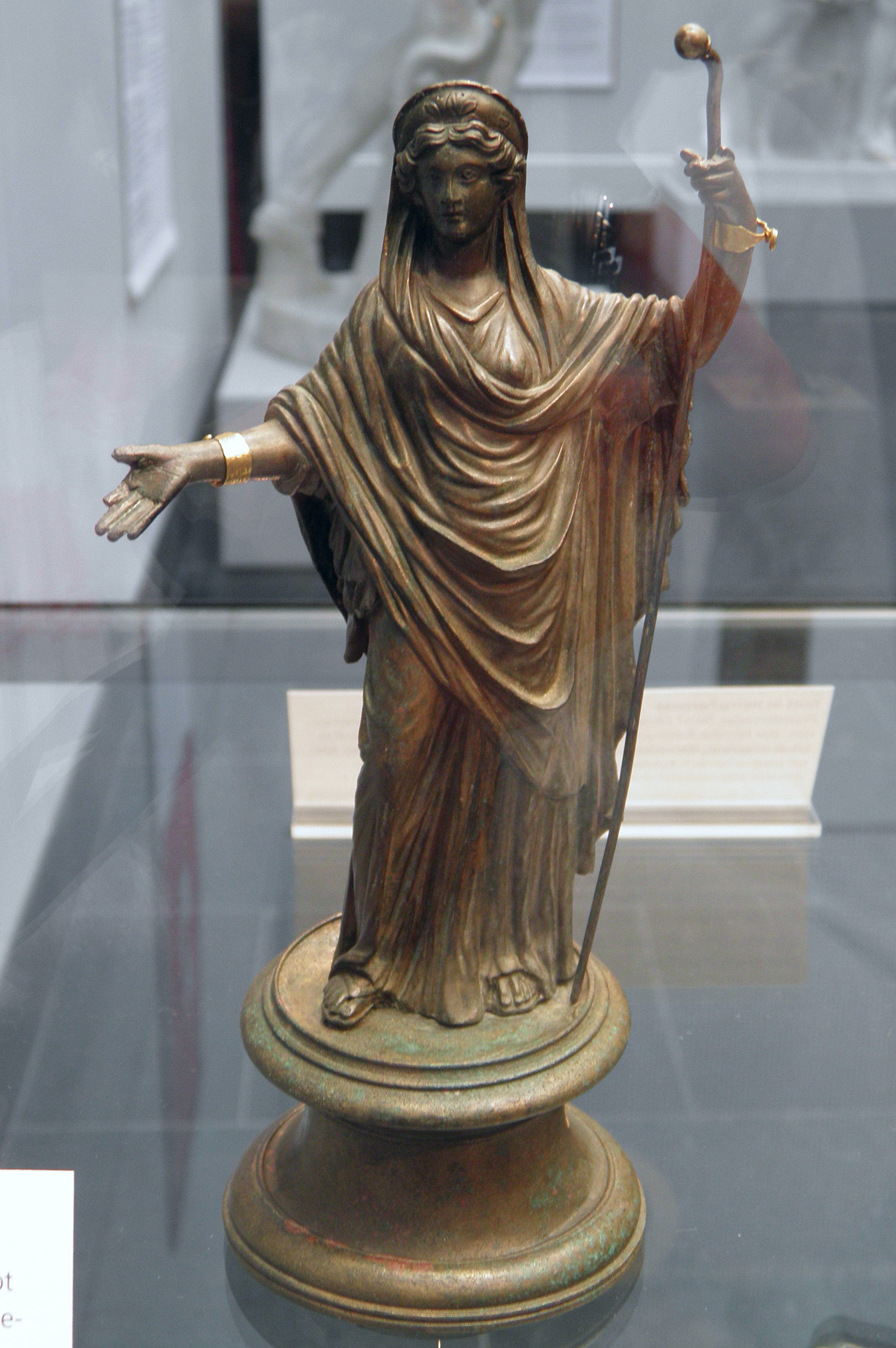 Juno Regina is perhaps the epithet most fraught with questions. While some scholars maintain she was known as such at Rome since the most ancient times as paredra of Jupiter in the Capitoline Triad others think she is a new acquisition introduced to Rome after her evocatio from Veii.